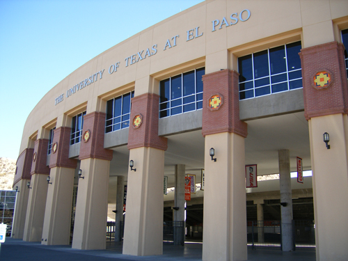 I am the original taker of this photo. The Larry Durham Center which overlooks Sun Bowl Stadium.